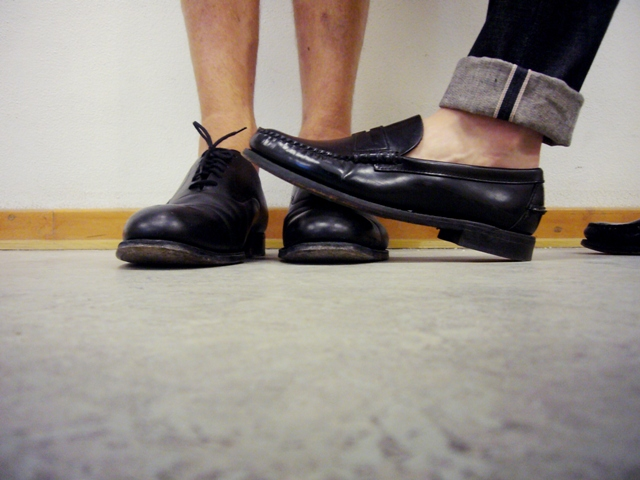 Sergei Sviatchenko. From the series Close Up And Private, 2011